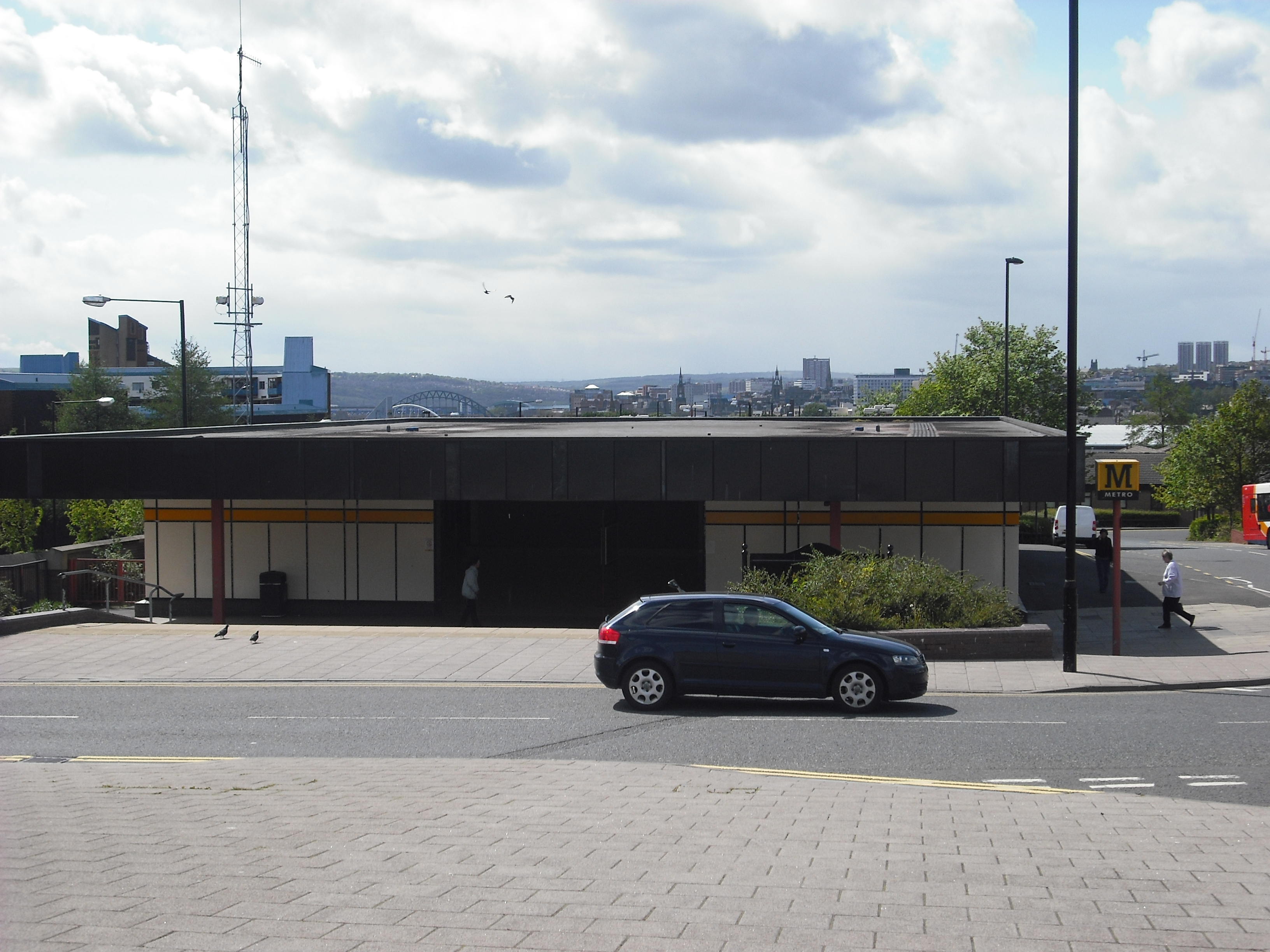 Byker station on the Tyne and Wear Metro. The view west to the entrance of the station building.